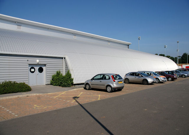 Exeter Tennis Centre, University of Exeter Built in partnership between the University, the Lawn Tennis Association and Exeter City Council, and completed in 2004. This building at the top of the Streatham campus contains four acrylic courts, with nets under the apex.